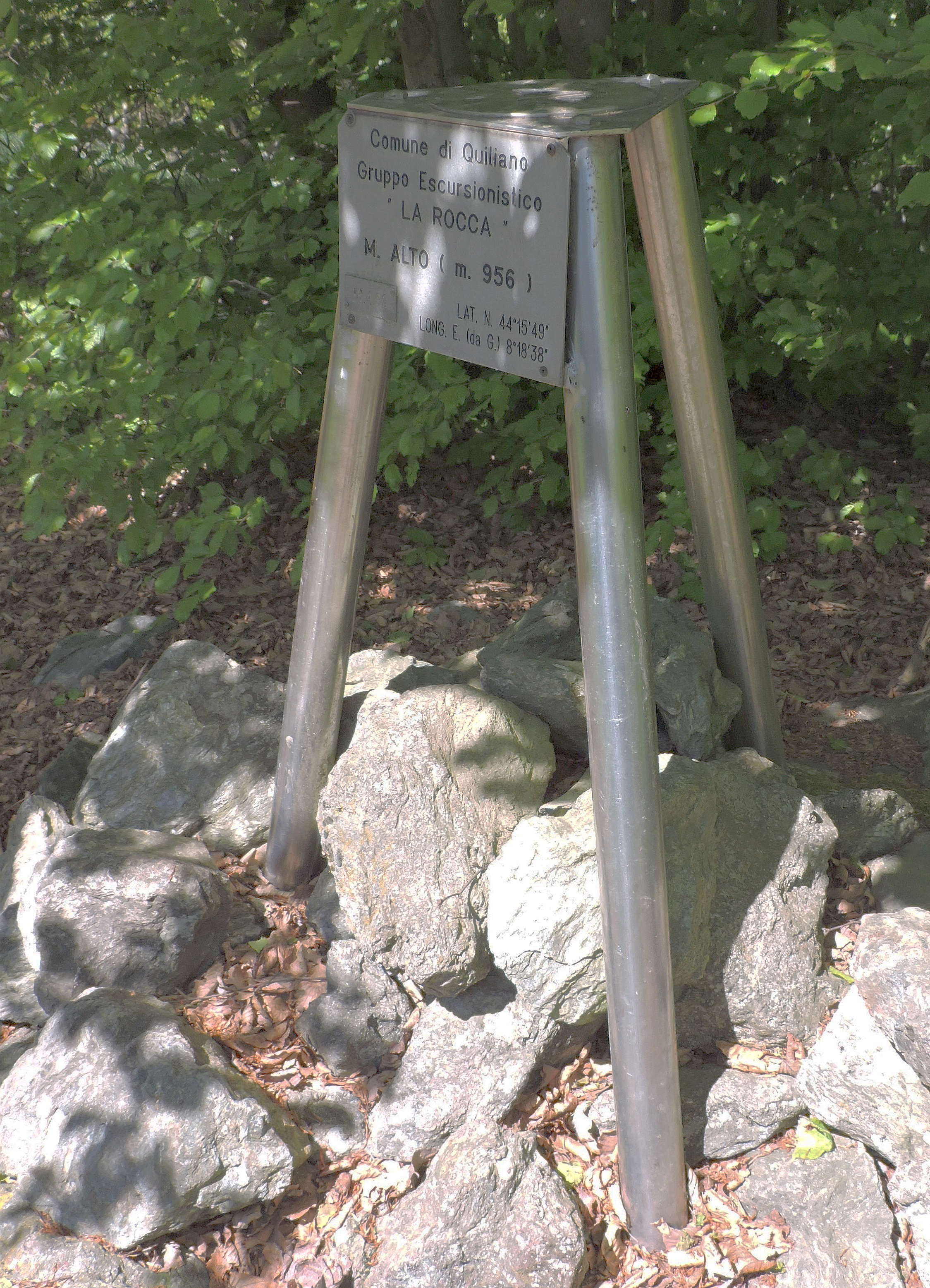 Monte Alto (Ligurian Prealps): orientation table on the summit